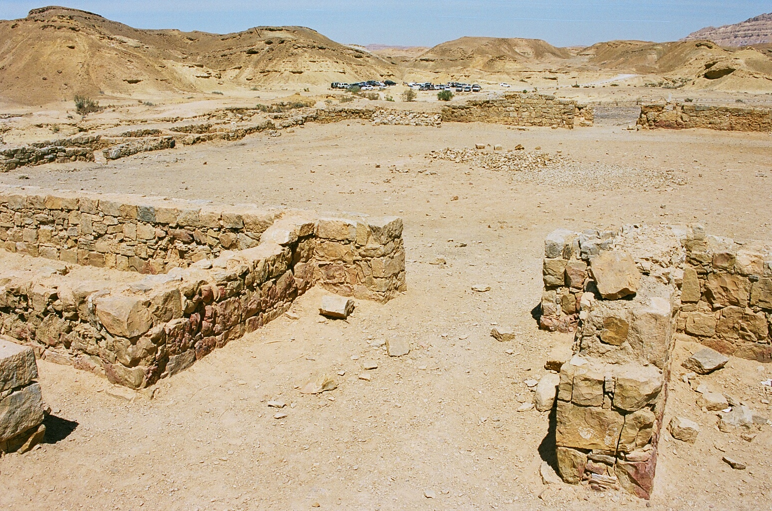 Israel, Qumran - Israel 2 001 - Israel 2nd day (22 march 2005) photo number 001